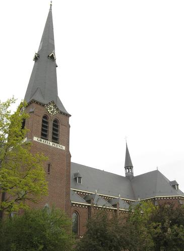 Roman Catholic Parish Church of Our Lady of Perpetual Succour in Mariaparochie (municipality of Almelo and municipality of Tubbergen), Overijssel Provincie, The Netherlands (Europe). Inscription: Ave Maria Gratia Plena. Hail Mary, Full of Grace.